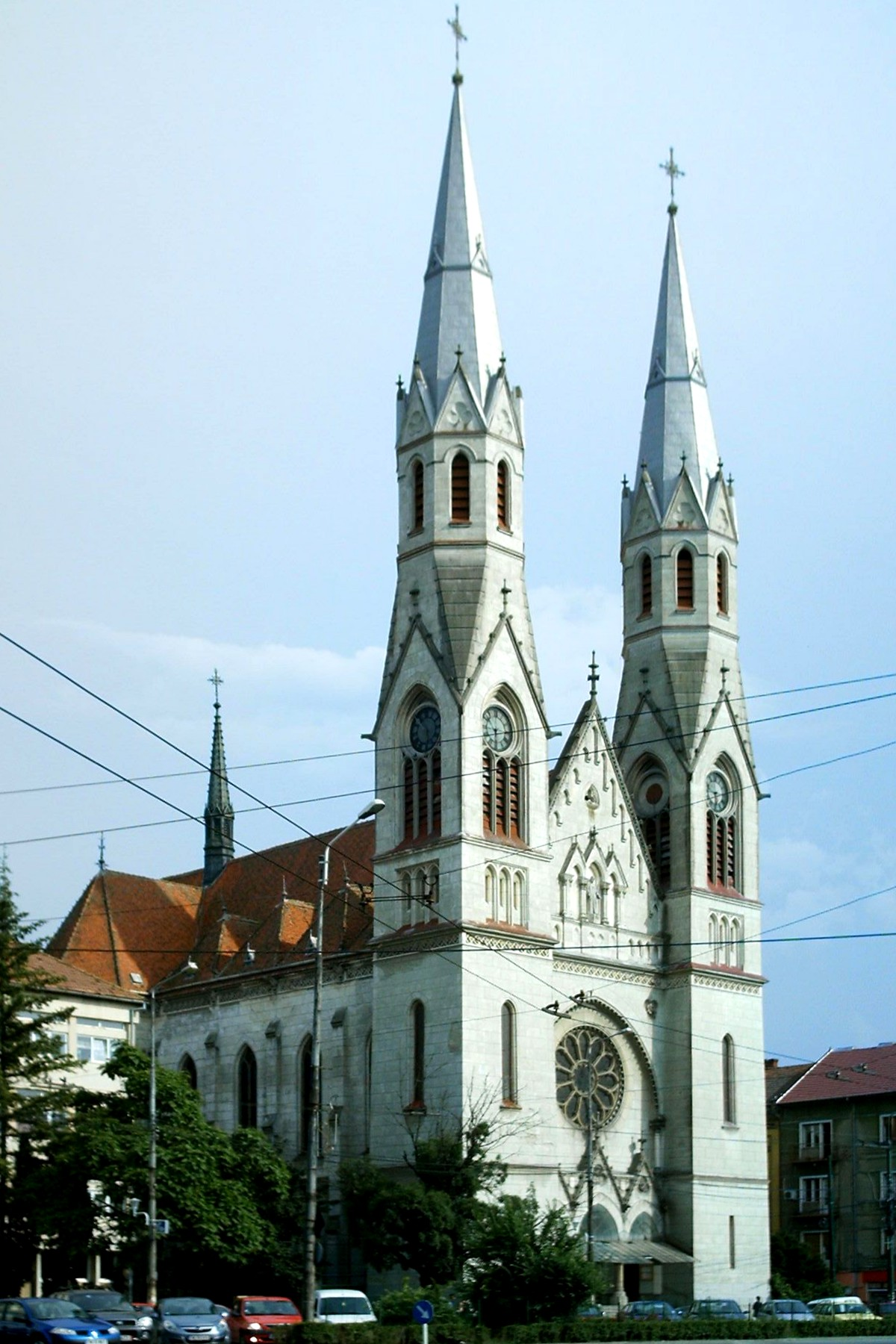 Catholic Church "Sacred Heart of Jesus" in Elisabetin, Timisoara, Romania (Karl Salkovics, 1919).